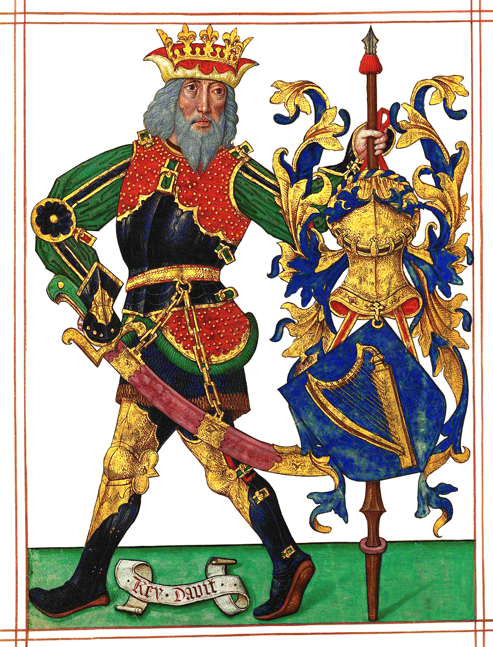 King David